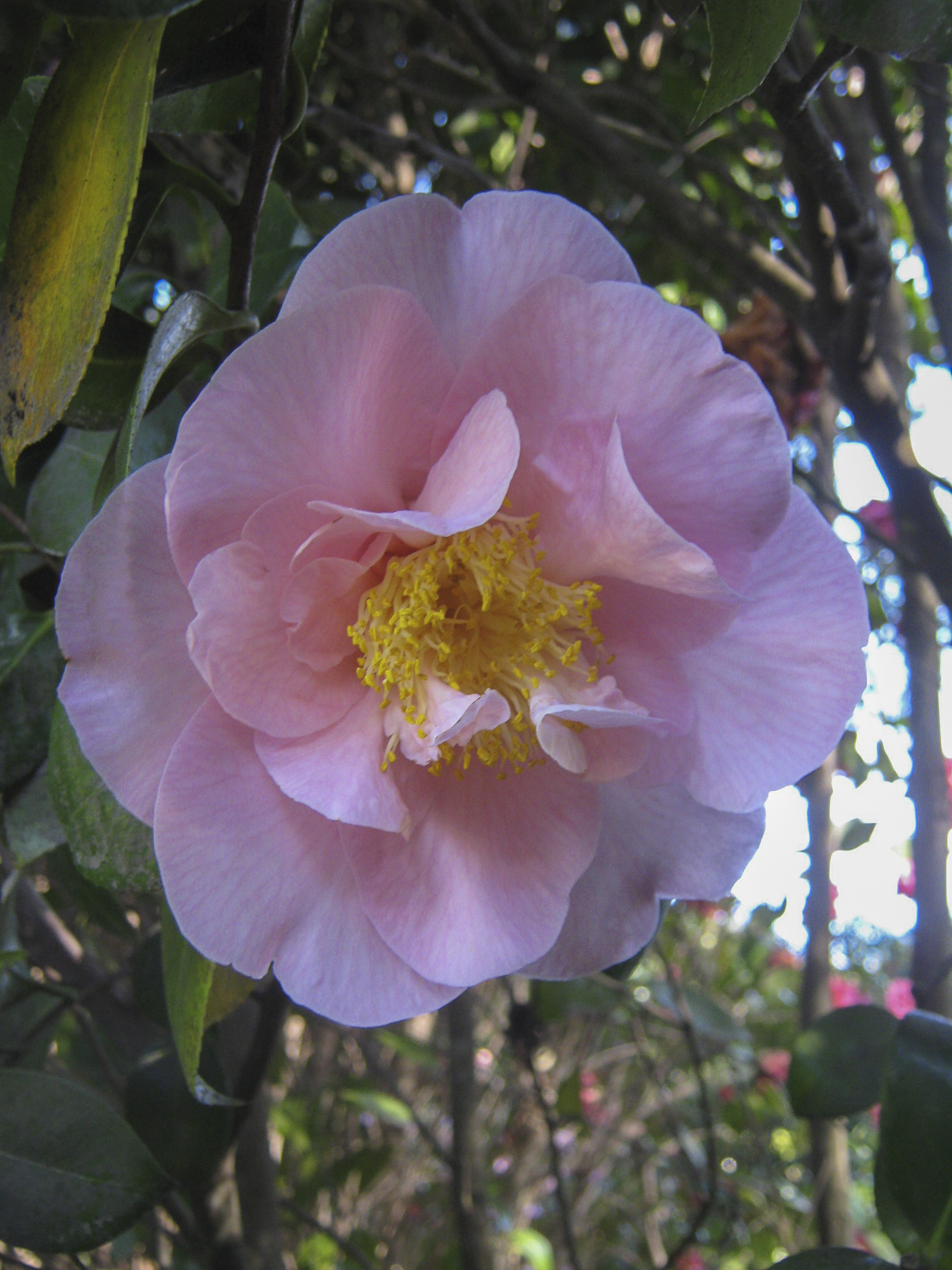 Camellia japonica 'Betty Cuthbert' by E.G. Waterhouse 1962; photographed in the National Rhododendron Garden, Olinda, Victoria